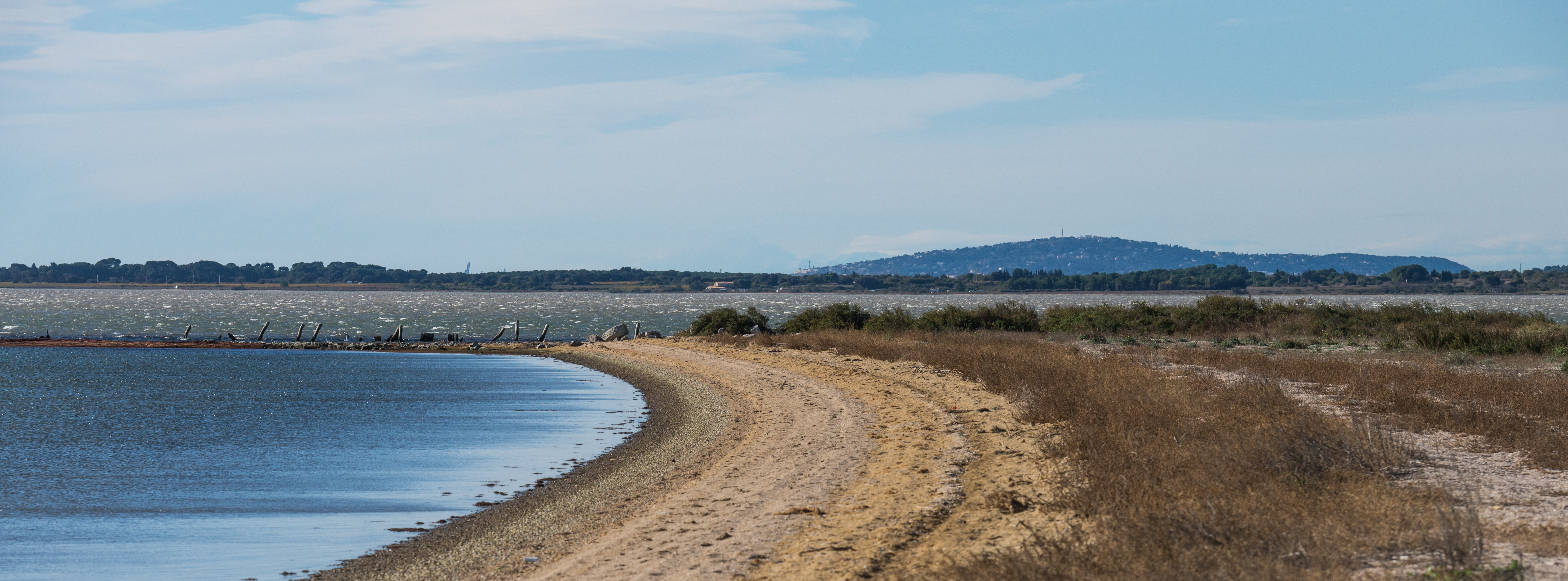 In the middle the Étang de Vic, the Étang des Moures at left, and the Mount Saint-Clair in Sète in the background. Vic-la-Gardiole, Hérault, France.